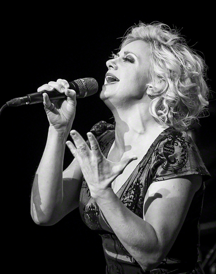 Hilde Louise Asbjørnsen and Kaba Orchestra at the main stage of Oslo Opera House. The concert was part of the Oslo Jazz Festival in Norway and took place on 15. August 2016. Lineup:Hilde Louise Asbjørnsen (vocal)Marius Haltli (trumpet)Erik Eilertsen (trumpet)Kåre Nymark (trumpet)Jørgen Gjerde (trombone)Kristoffer Kompen (trombone)Håvard Fossum (saxophone)Atle Nymo (saxophone)Lars Frank (saxophone)Anders Aarum (piano)Svein Erik Martinsen (guitar)Jens Fossum (double bass)Hermund Nygård (drums)